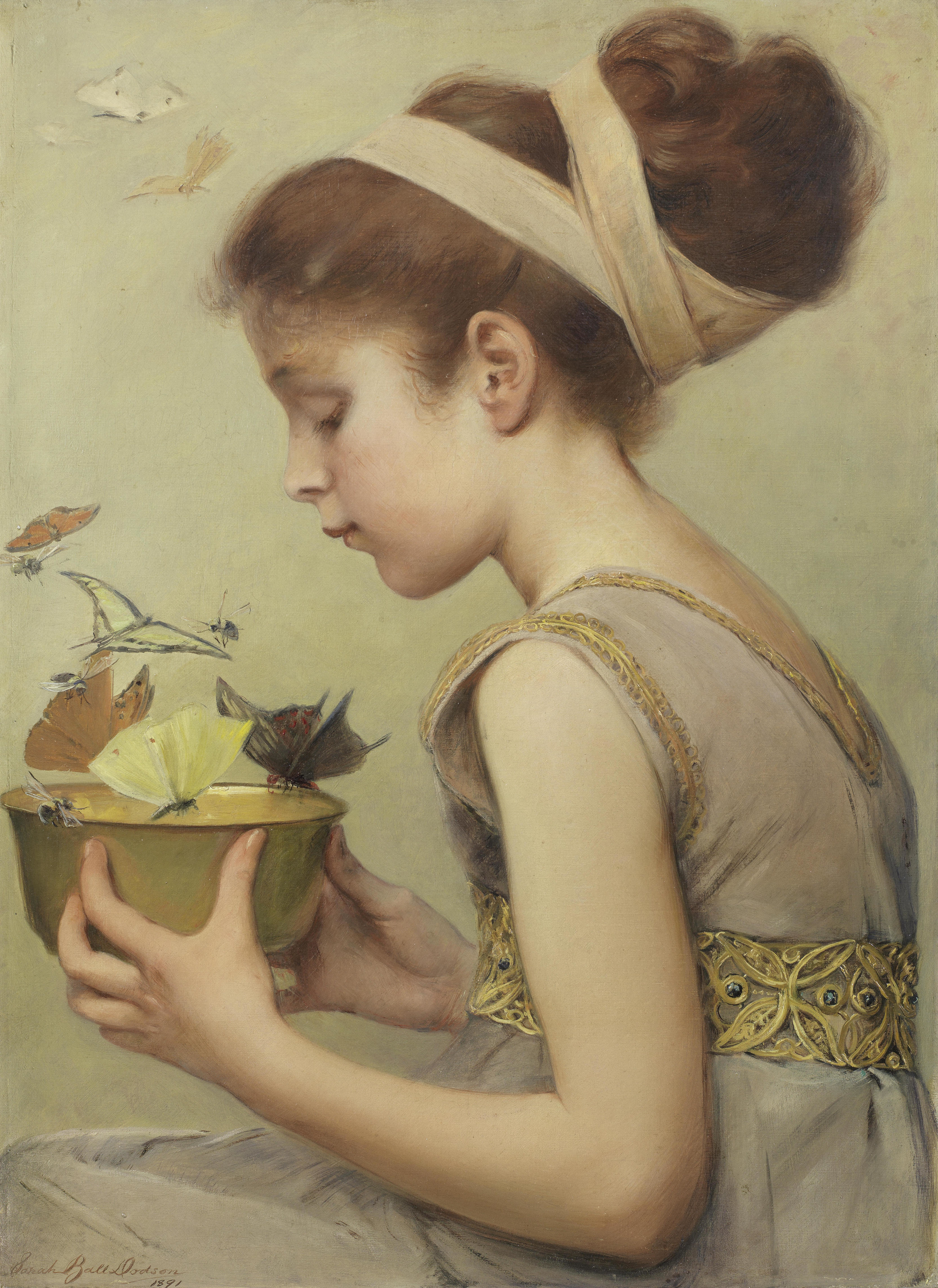 19th century American impressionist art.